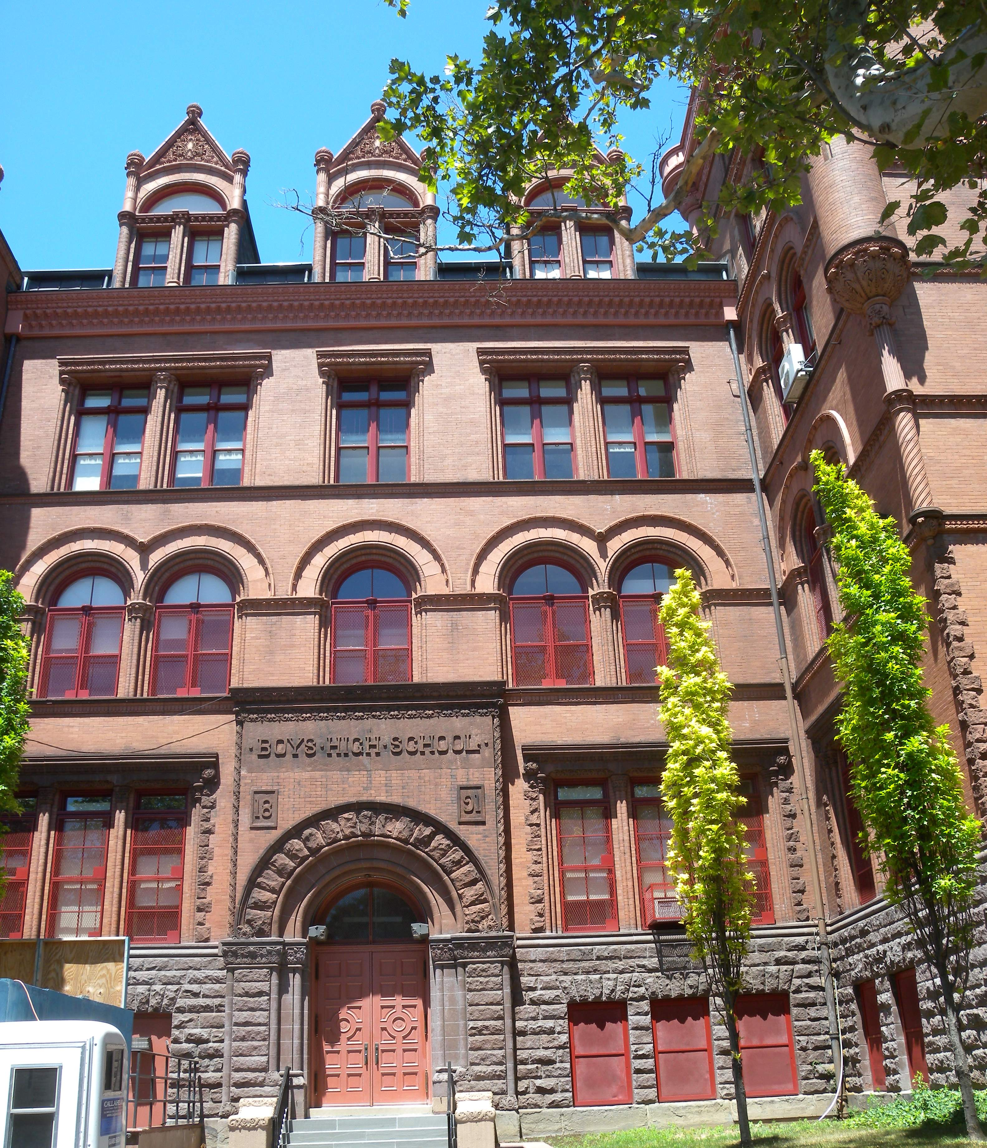 Looking north from Putnam Avenue at Boys High School on a sunny midday.